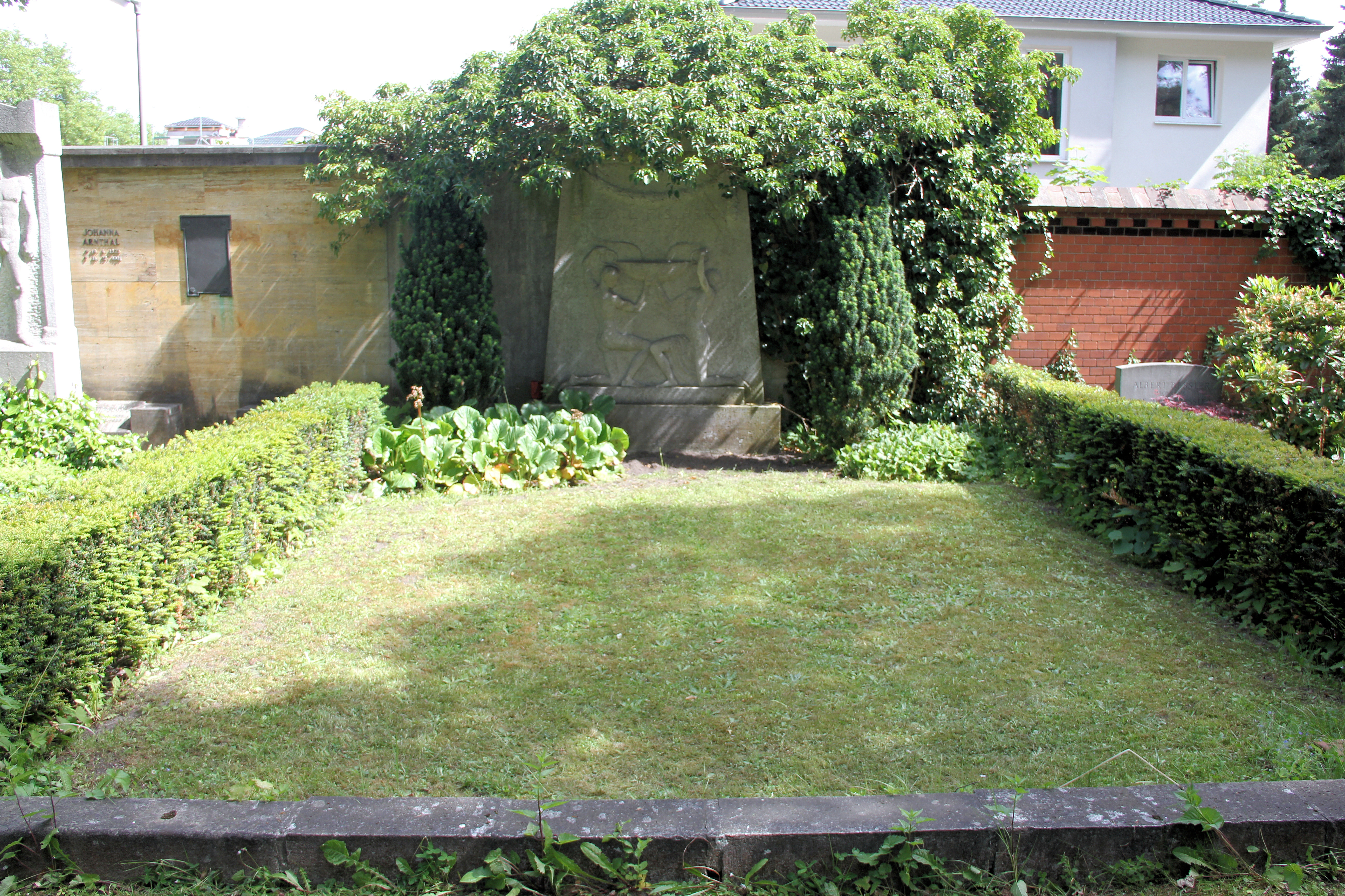 "Ehrengrab" (grave of honor), Hermann Emil Fischer, Lindenstraße 1, Berlin-Wannsee, Germany